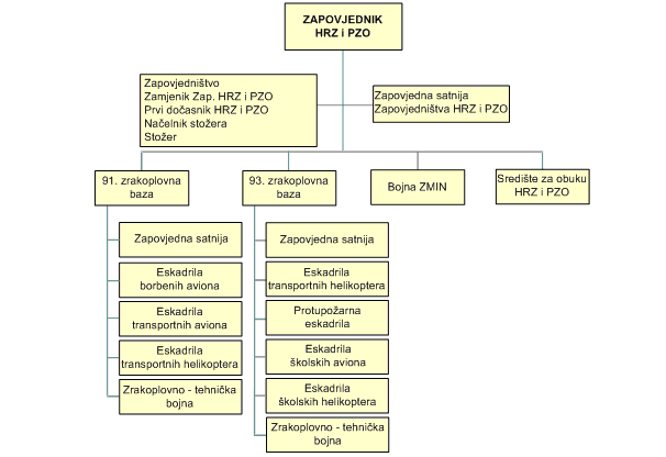 Structure of the Croatian Air Force